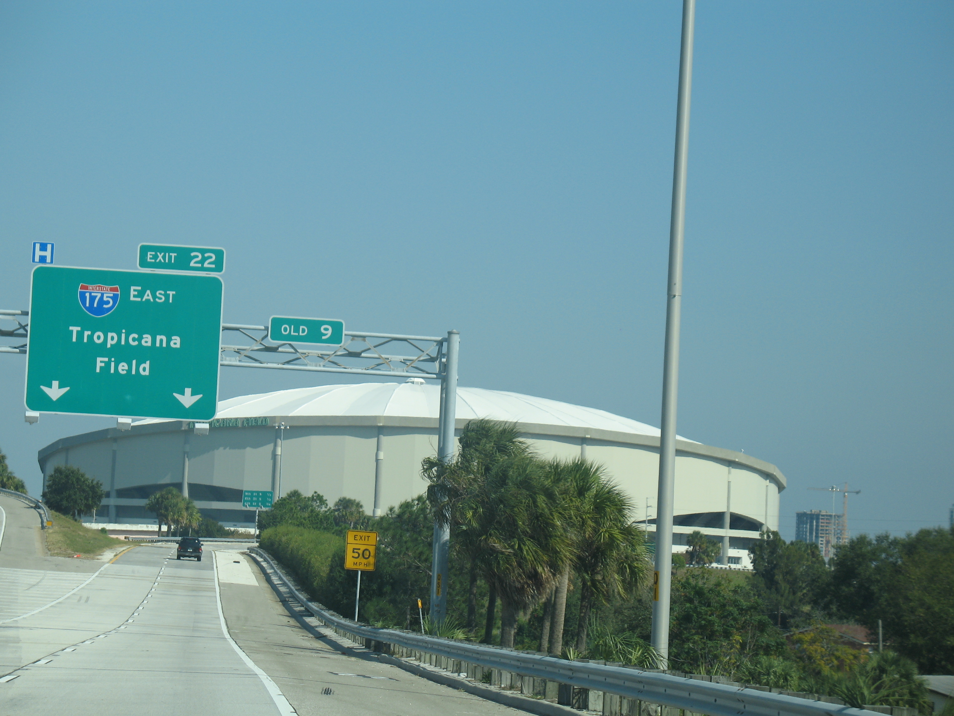 Tropicana Field 22:08, 25 July 2007 . . 2candle . . 3072×2304 (2,612,575 bytes)